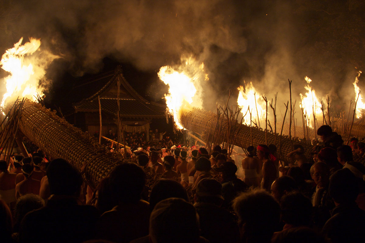 Festival of Oniyo, Daizenji, Kurume city, Fukuoka, Japan.